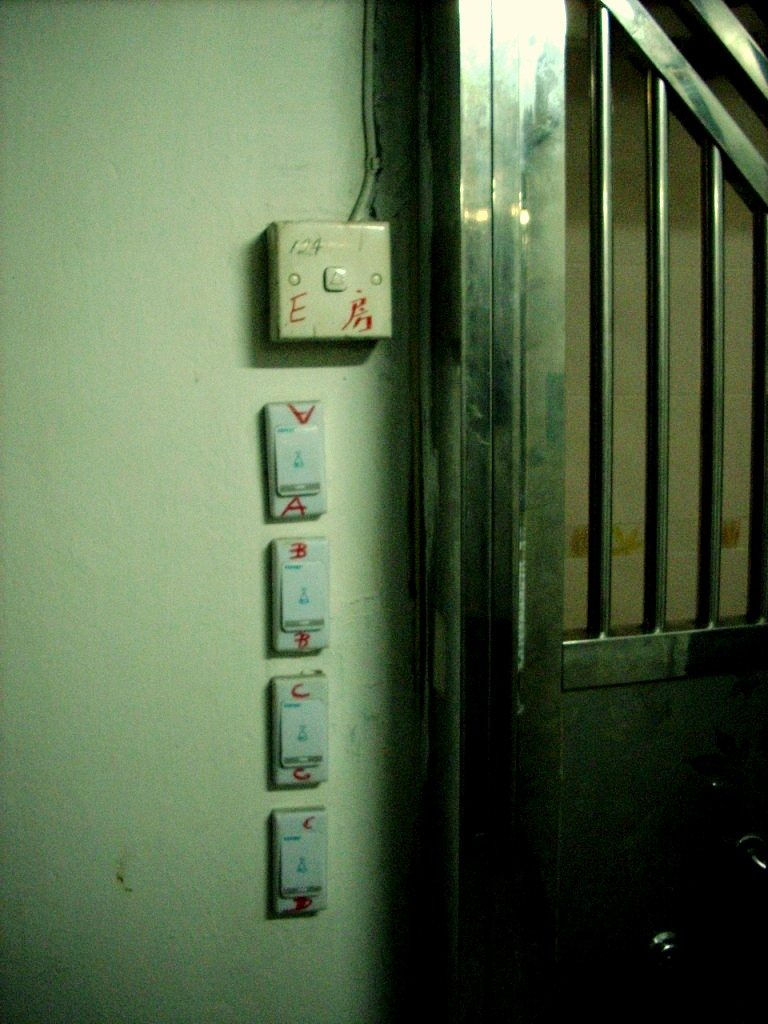 Door Bells of sub-division of flat units in Hong Kong